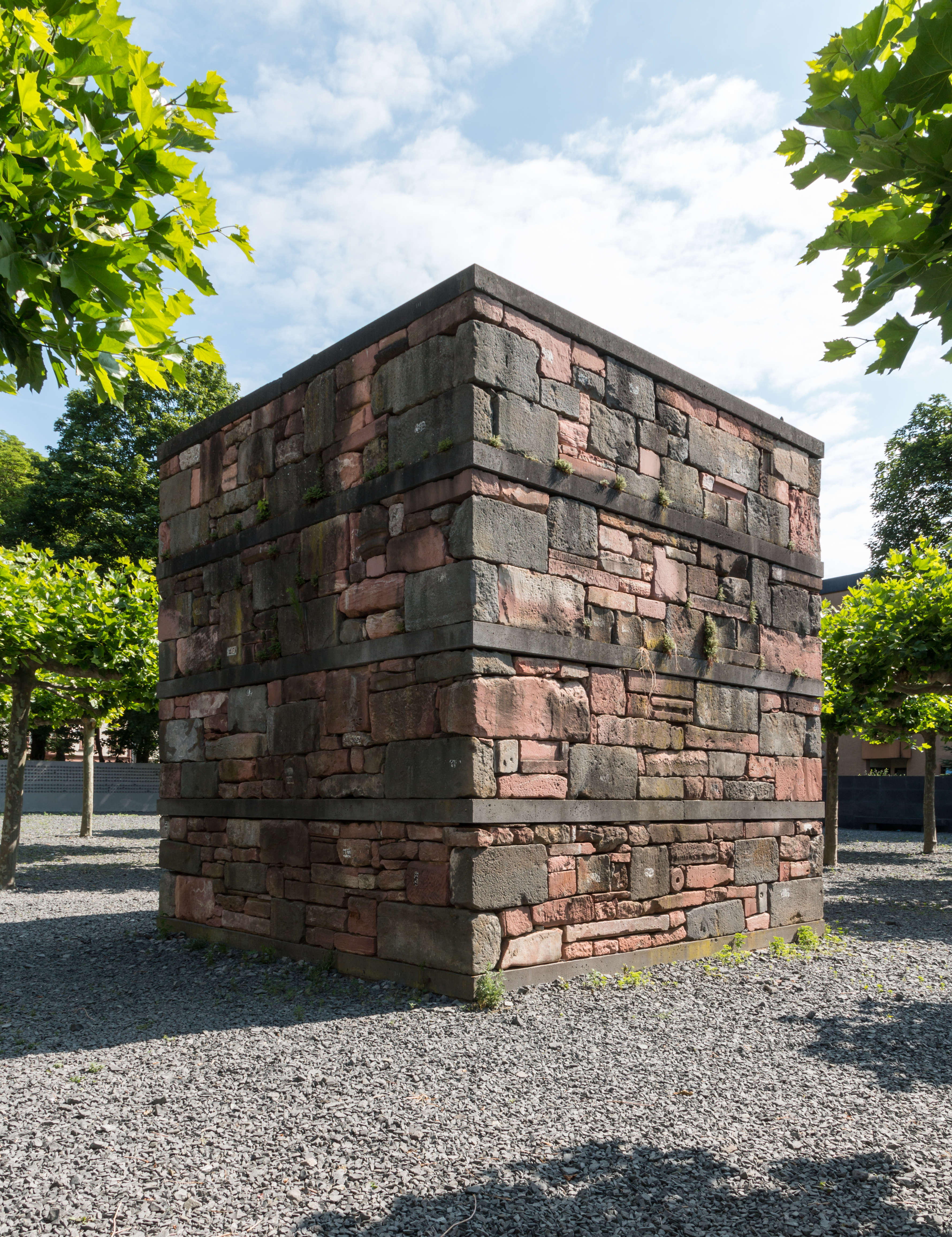 Memorial Börneplatz in Frankfurt am Main, Hesse, Germany Sculpture TitleGedenkstätte am Neuen Börneplatz für die von Nationalsozialisten vernichtete dritte jüdische Gemeinde in Frankfurt am MainArtistAndrea Wandel, Nikolaus Hirsch, Wolfgang LorchDate16 June 1996